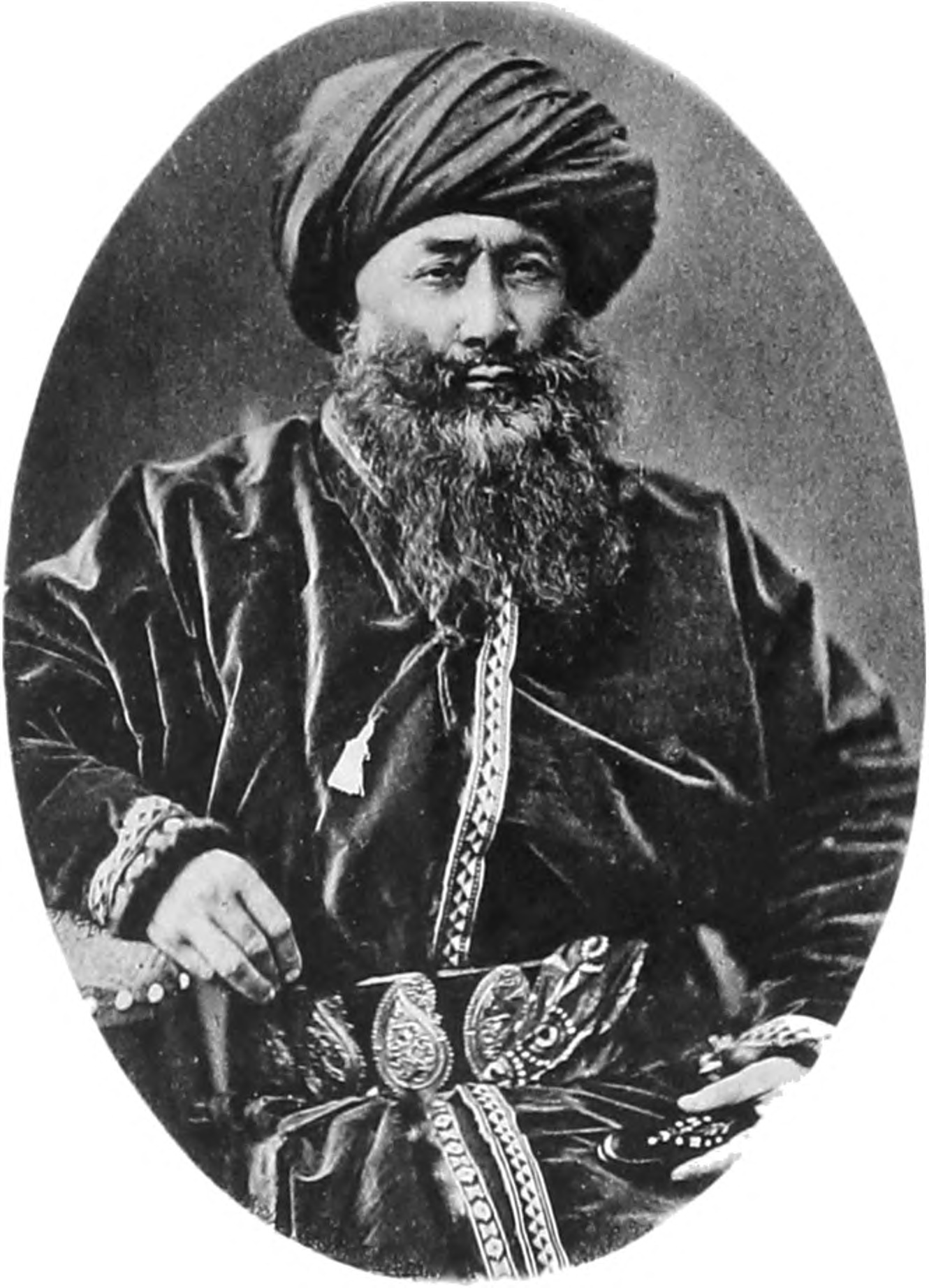 Yaqub Beg, the Uzbekistan-born ethnic-Tajik ruler of Kashgar during the Dungan Rebellion (Hui Minorities' War). Photo or portrait from the 1898 Veselovsky's book